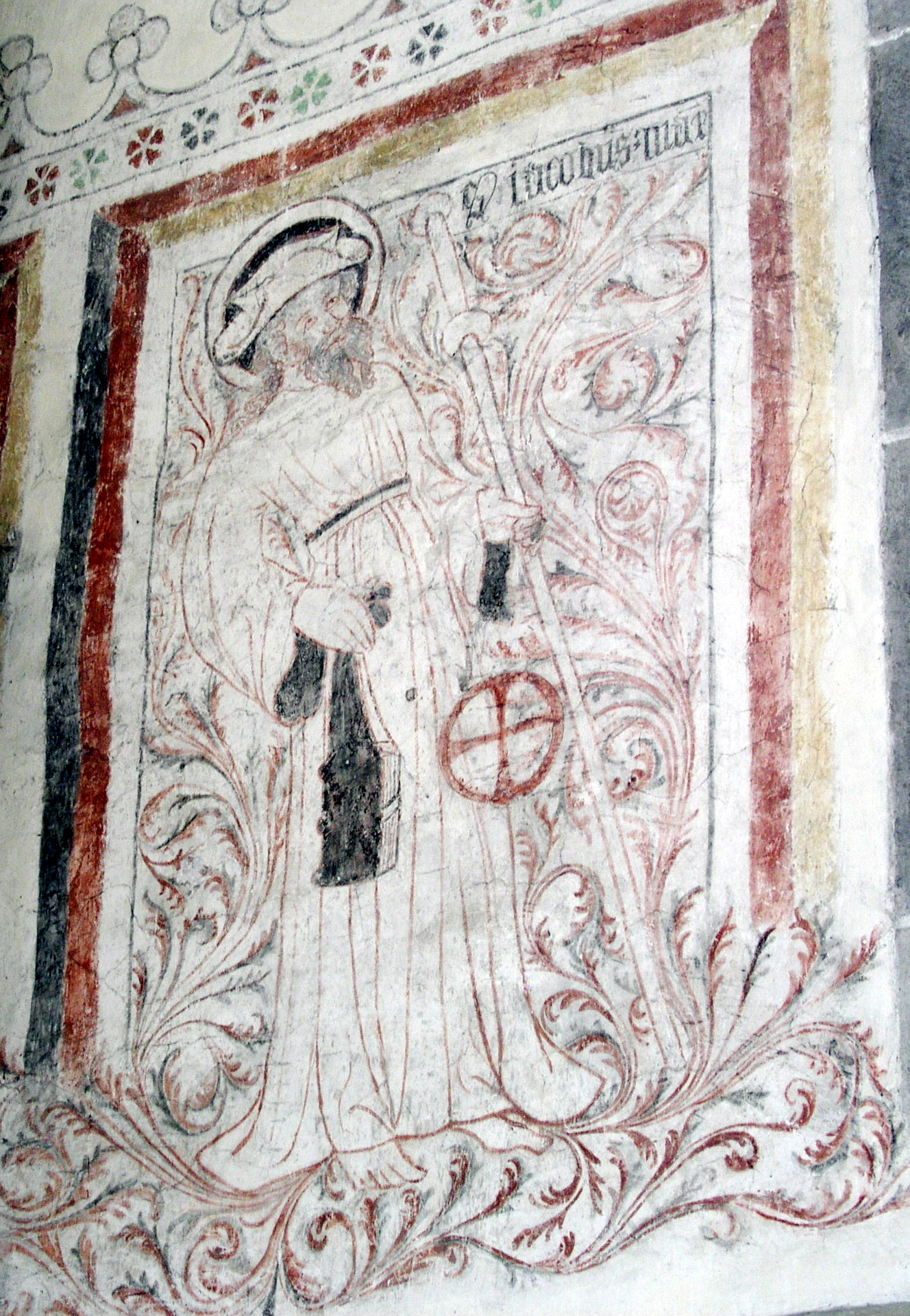 Othem kyrka / Othem church, Gotland, Sweden. Paintings. This image shows the apostle Saint James the Great ("S. Jacobus") with his pilgrim's staff. The hat is typical, but he often wears his emblem, the scallop shell on the front brim of the hat or elsewhere on his clothes (it may have been lost because of the deterioration of the painting). The central part of the image shows one of the twelve consecration crosses painted in the church at the time of connsecration.